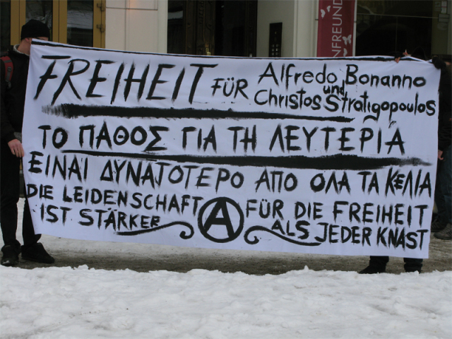 Solidarity Action for the italian Anarchist Alfredo Maria Bonanno in front of the Greek Embassy in Berlin